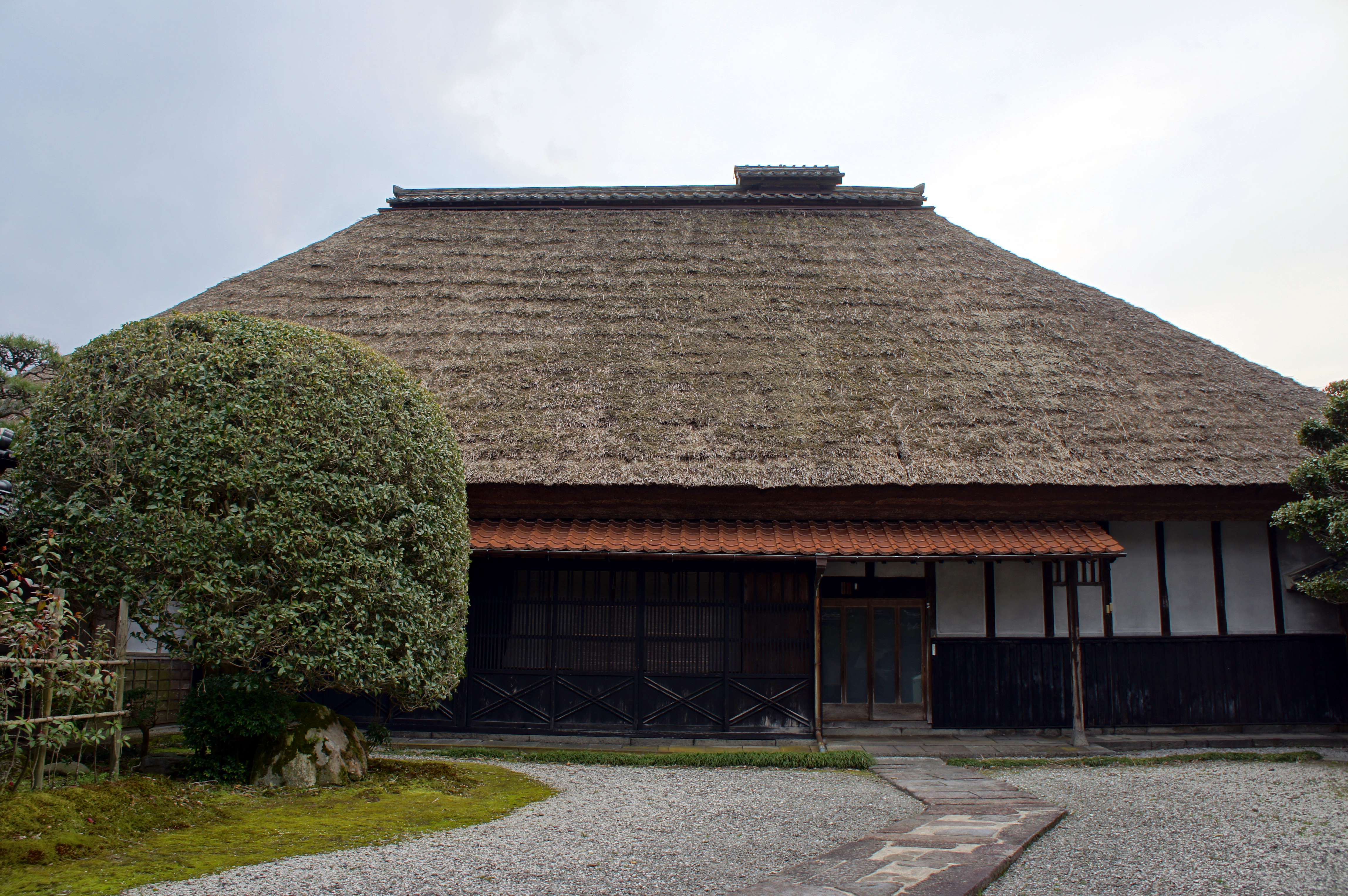 Kadowaki Residence (Daisen, Saihaku District, Tottori Prefecture, Japan)